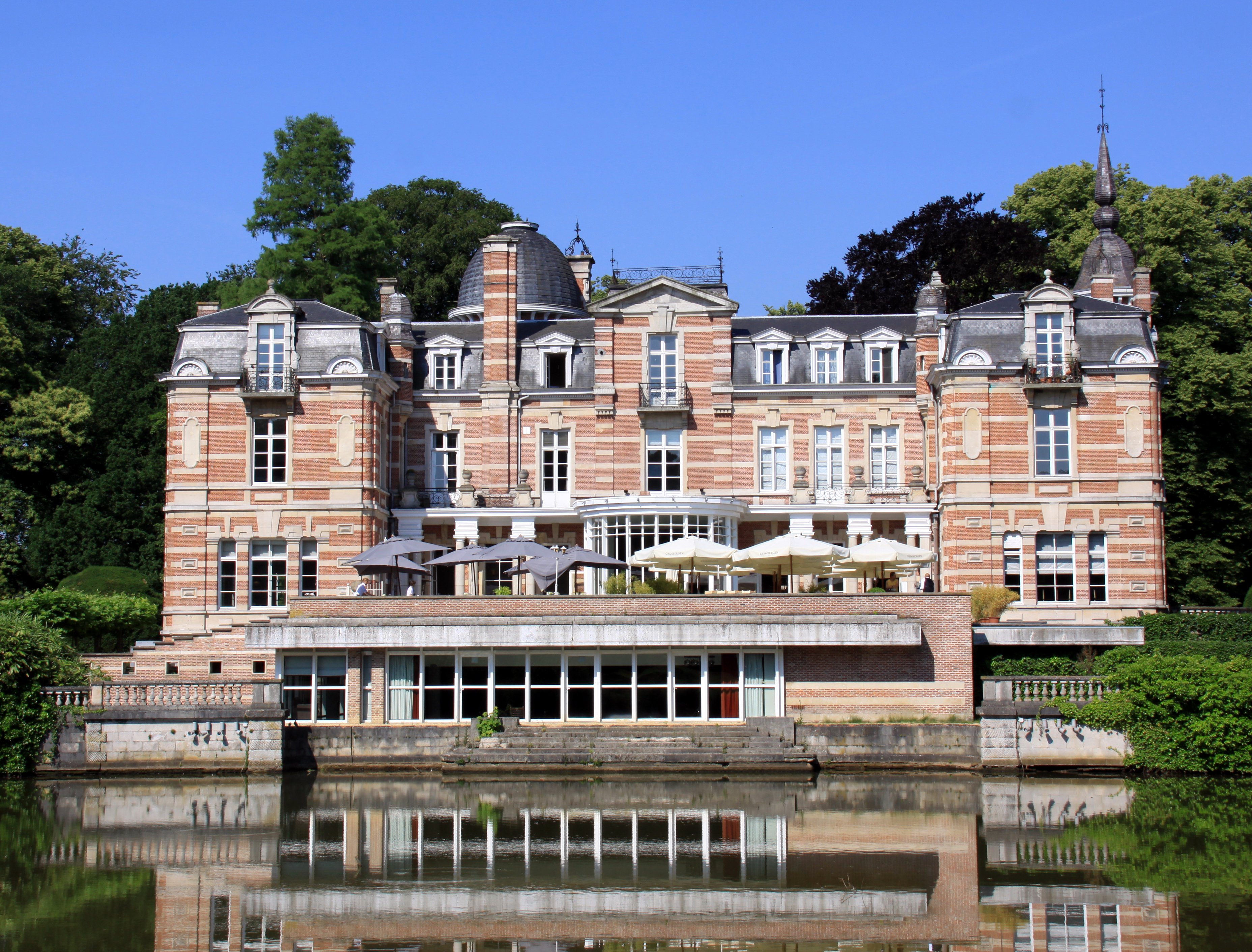 The Kasteel van Brasschaat